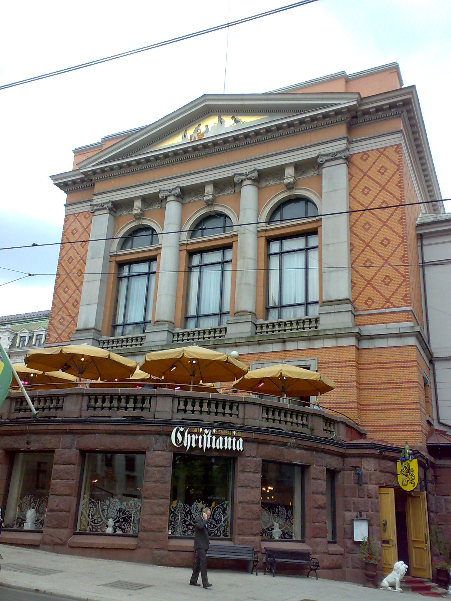 Norwegian Freemason headquarters